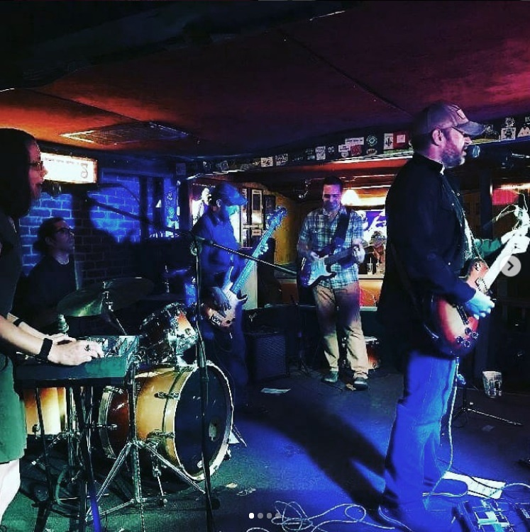 Fairmont (band) performing live on 16 September 2018.